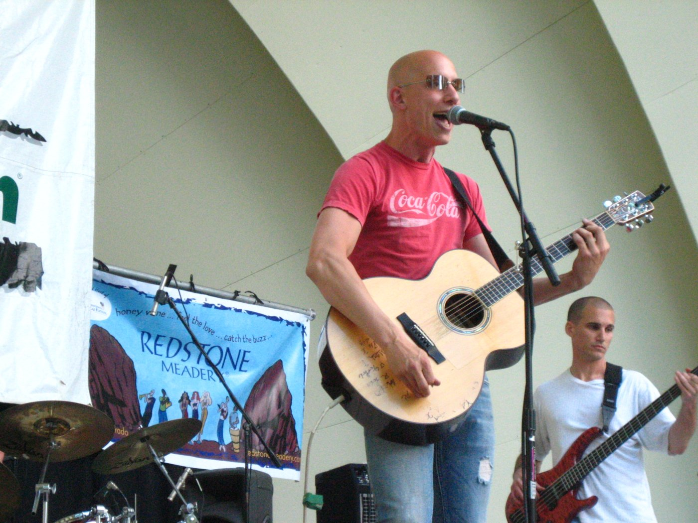 Stuart Davis performing at the Boulder Creek Festival in Boulder, Colorado, May 28th, 2005